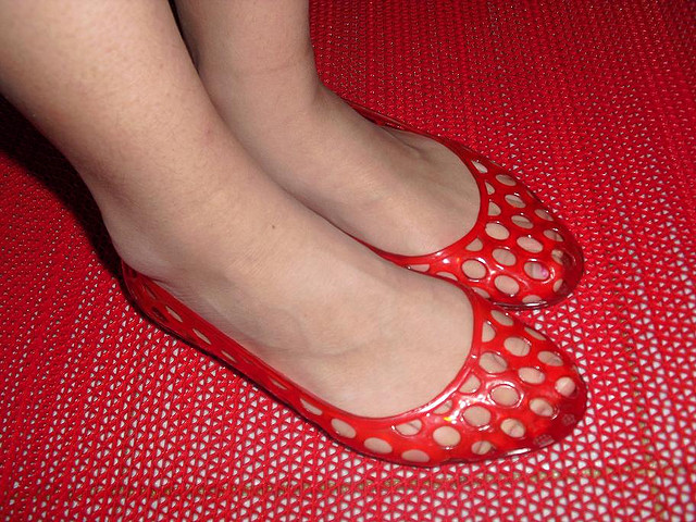 Red jellies on a red bath mat